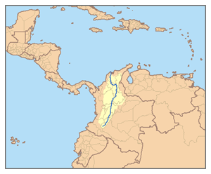 This is a map of the Magdalena River watershed. I, Pfly, made it, based on USGS data.